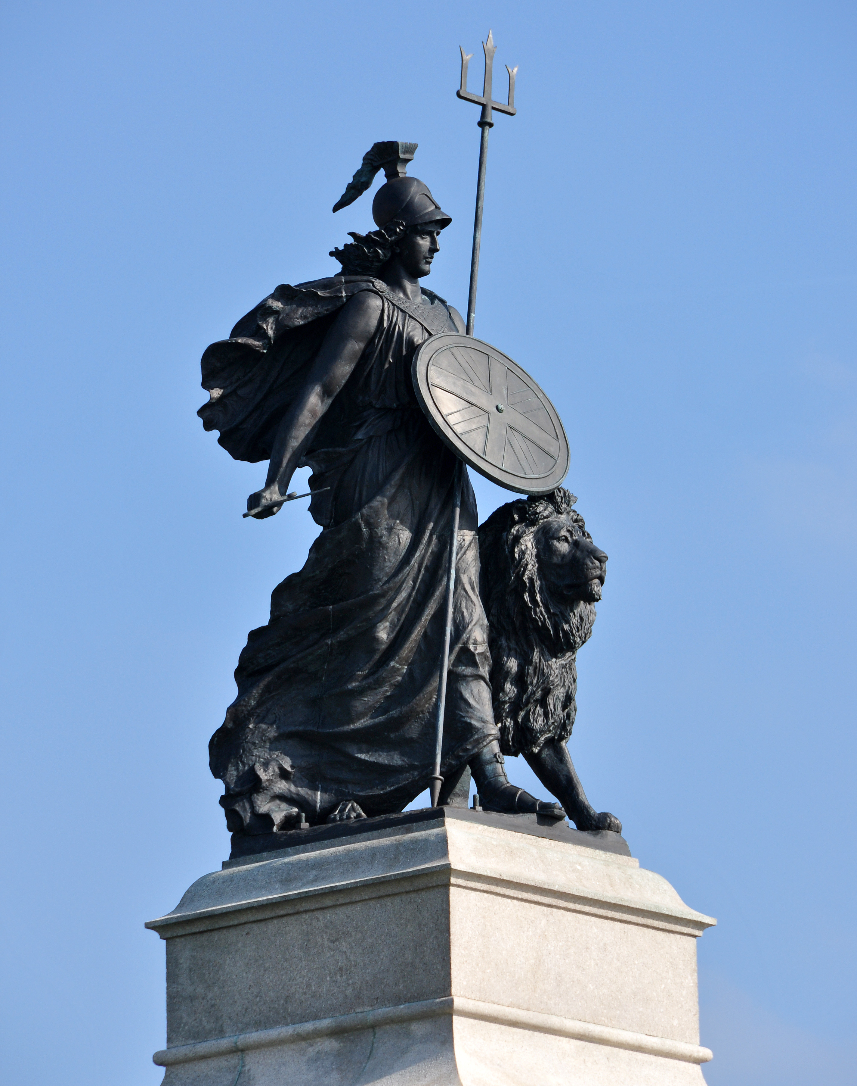 Statue of Britannia on top of the National Armada Memorial on Plymouth Hoe.